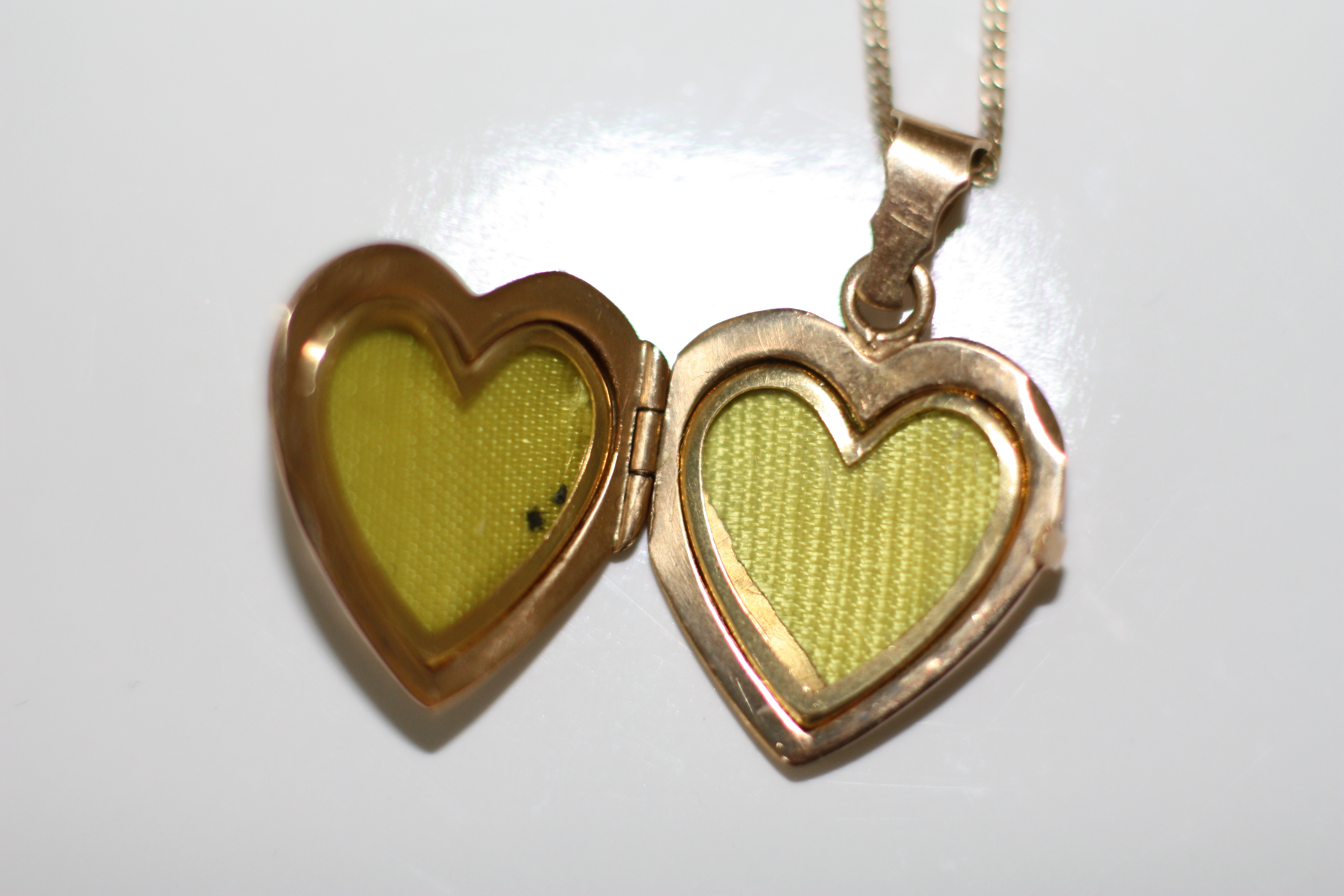 Locket